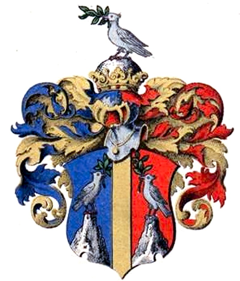 Coat of Arms of Blanckenhagen noble family.